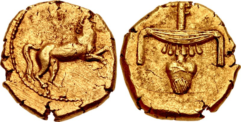 EGYPT, Pharaonic Kingdom. Nektanebo II. 361-343 BC. AV Stater (17mm, 8.23 g, 12h). Horse prancing right / Hieroglyphic representation of “good gold”: pectoral necklace (nebew = “gold”) crossing horizontally over a windpipe and heart (nefer = “good”). FF-BD 2g (D1/R2 – this coin); SNG Berry 1459 (same obv. die); SNG Copenhagen 1 (same dies); ACGC 1064 (same dies); Adams III 2075 (same obv. die); Hunt I 106 (same obv. die); Zhuyuetang 121 (same dies). Near EF, lightly toned, a little off center on obverse.